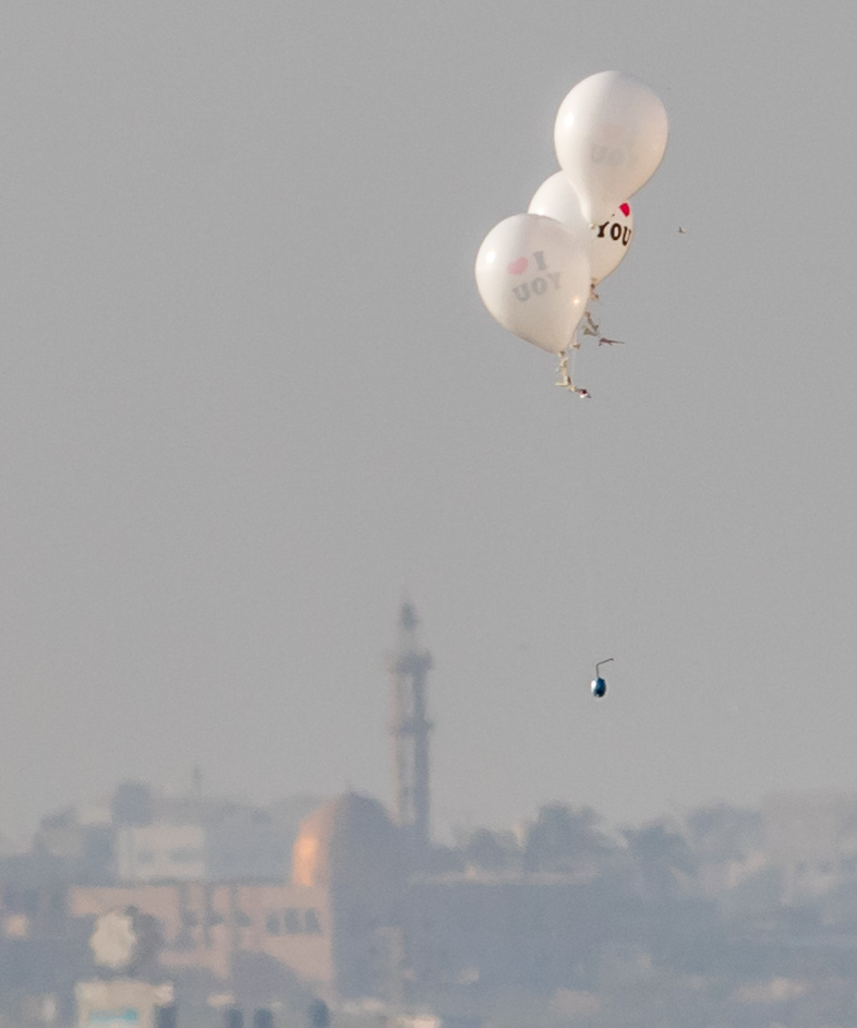 Helium balloons bearing flammable materials launched from Bureij, Gaza strip, drifting to Israel. Since March 2018, Palestinians in the Gaza Strip have launched countless kites, balloons and inflated latex condoms bearing flammable materials, and occasionally explosives, into Israeli territory, sparking near-daily fires that have burned thousands of acres of farmland, parks, and forests